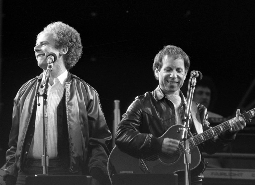 Simon and Garfunkel performing at the Feijenoord Stadion, Rotterdam, the Netherlands in 1982